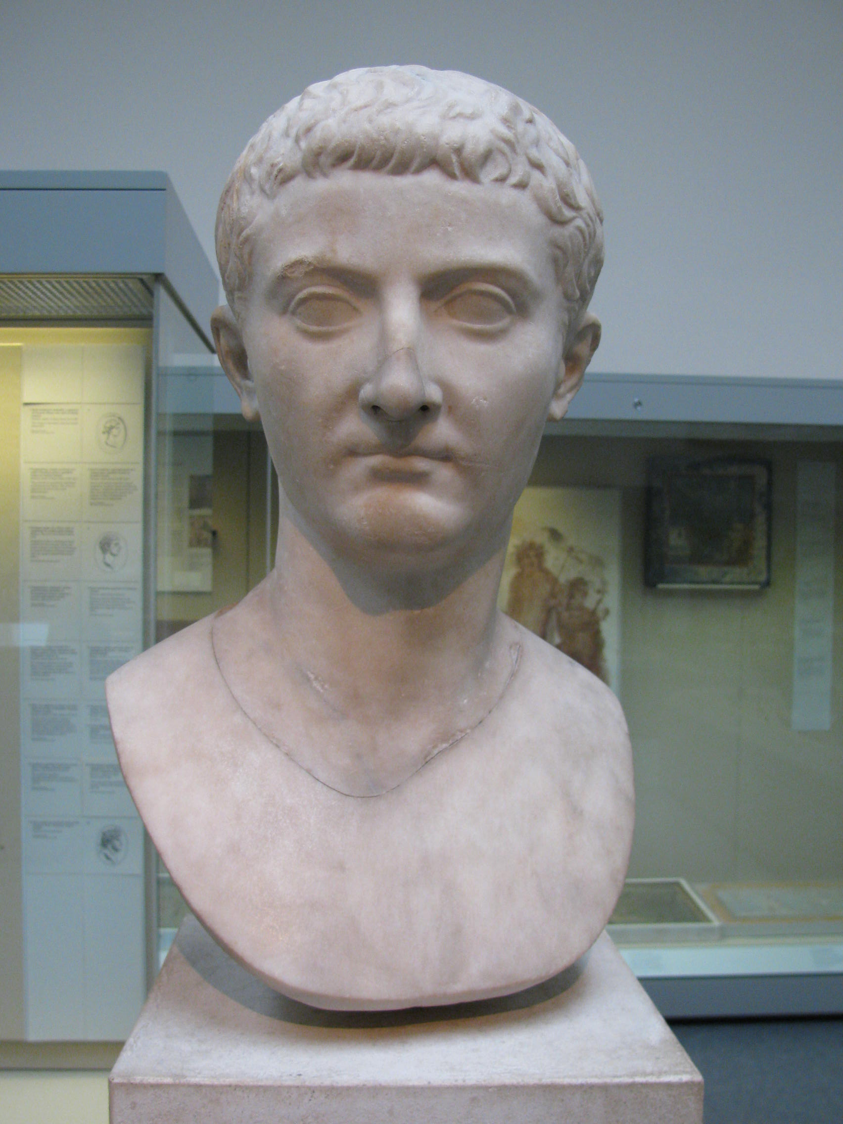 Portrait bust British Museum Room 70 Roman Empire